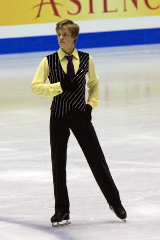 Tomas Verner at the 2009-2010 Grand Prix of Figure Skating Final.